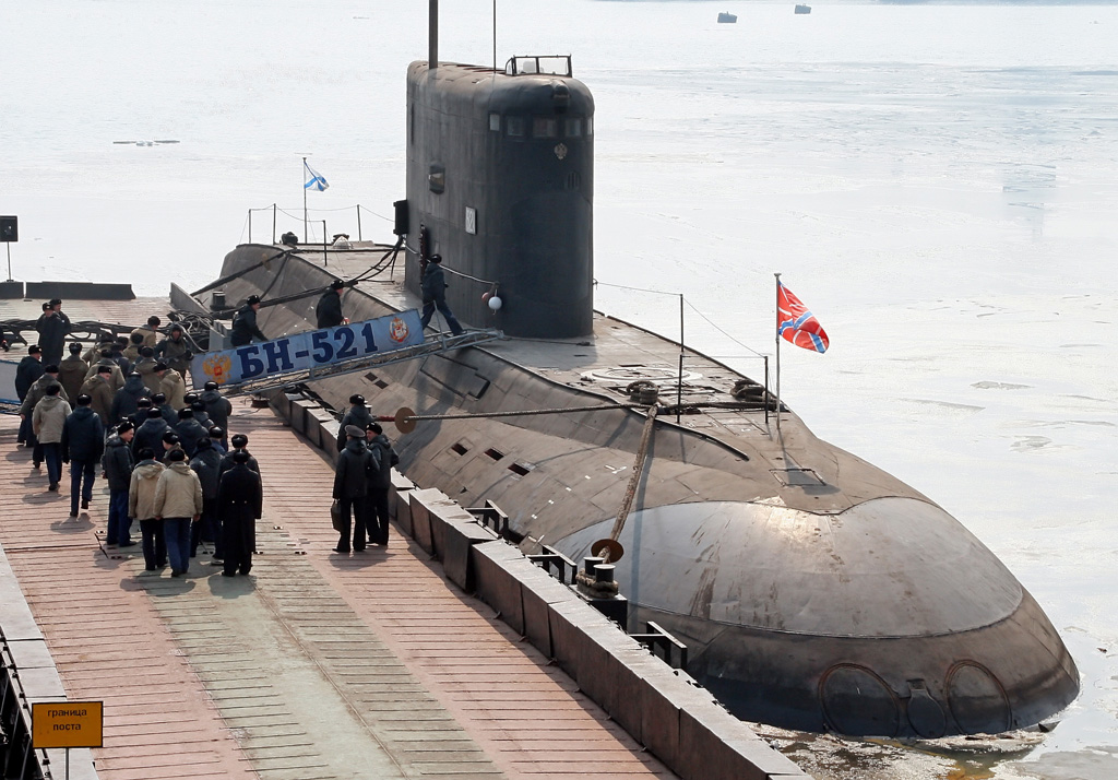 “The crew of a diesel-powered Varshavyanka [Kilo]-class submarine”. The crew of the Russian Pacific Fleet's diesel-powered Varshavyanka [Kilo]-class submarine on the eve of Submariner Day, due to be celebrated on March 19.